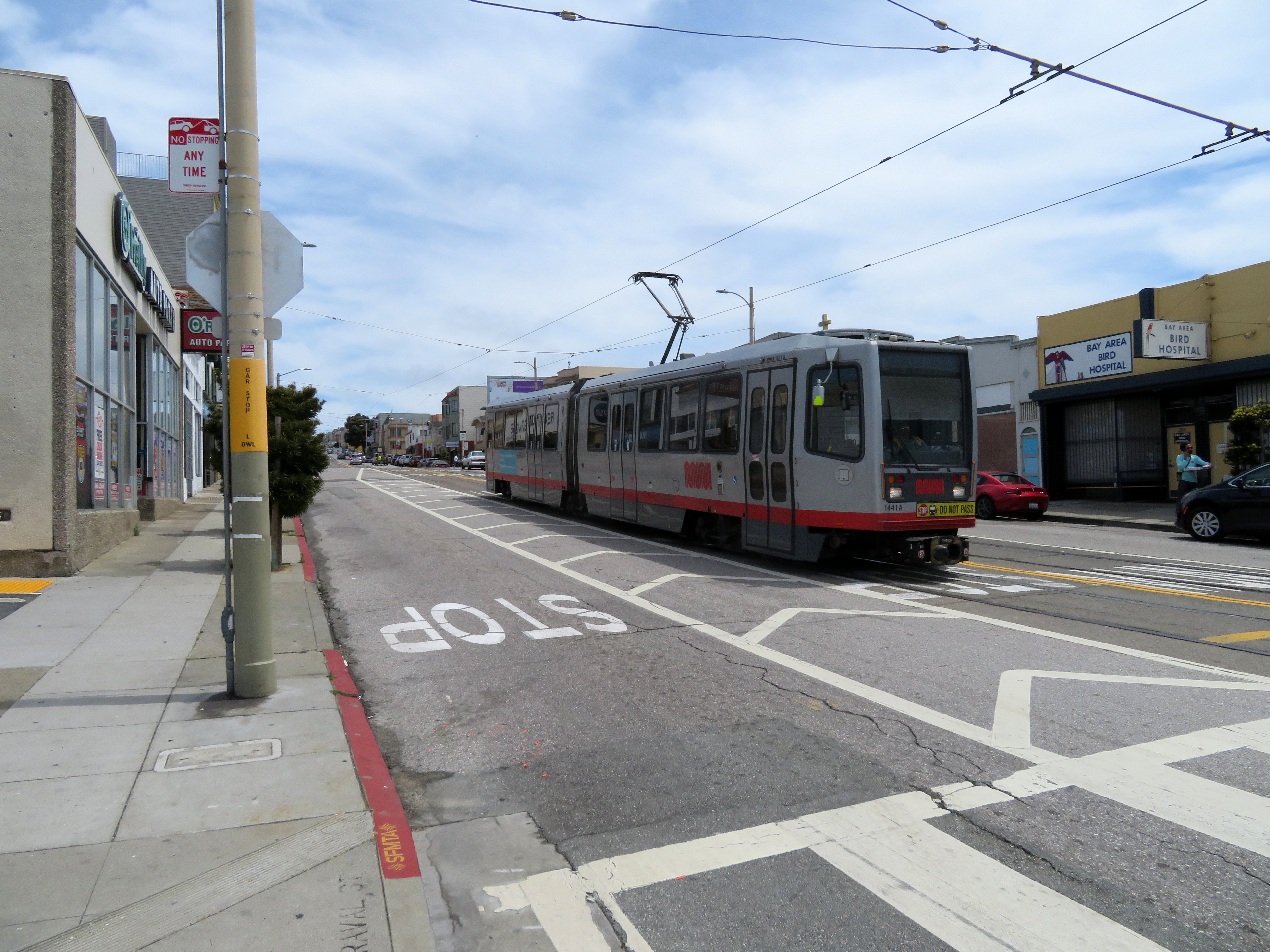 Outbound train at Taraval and 32nd Avenue in May 2018